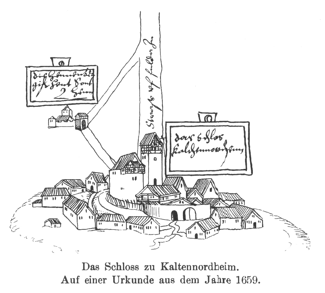 Drawing of the Merlinsburg castle in Kaltennordheim.